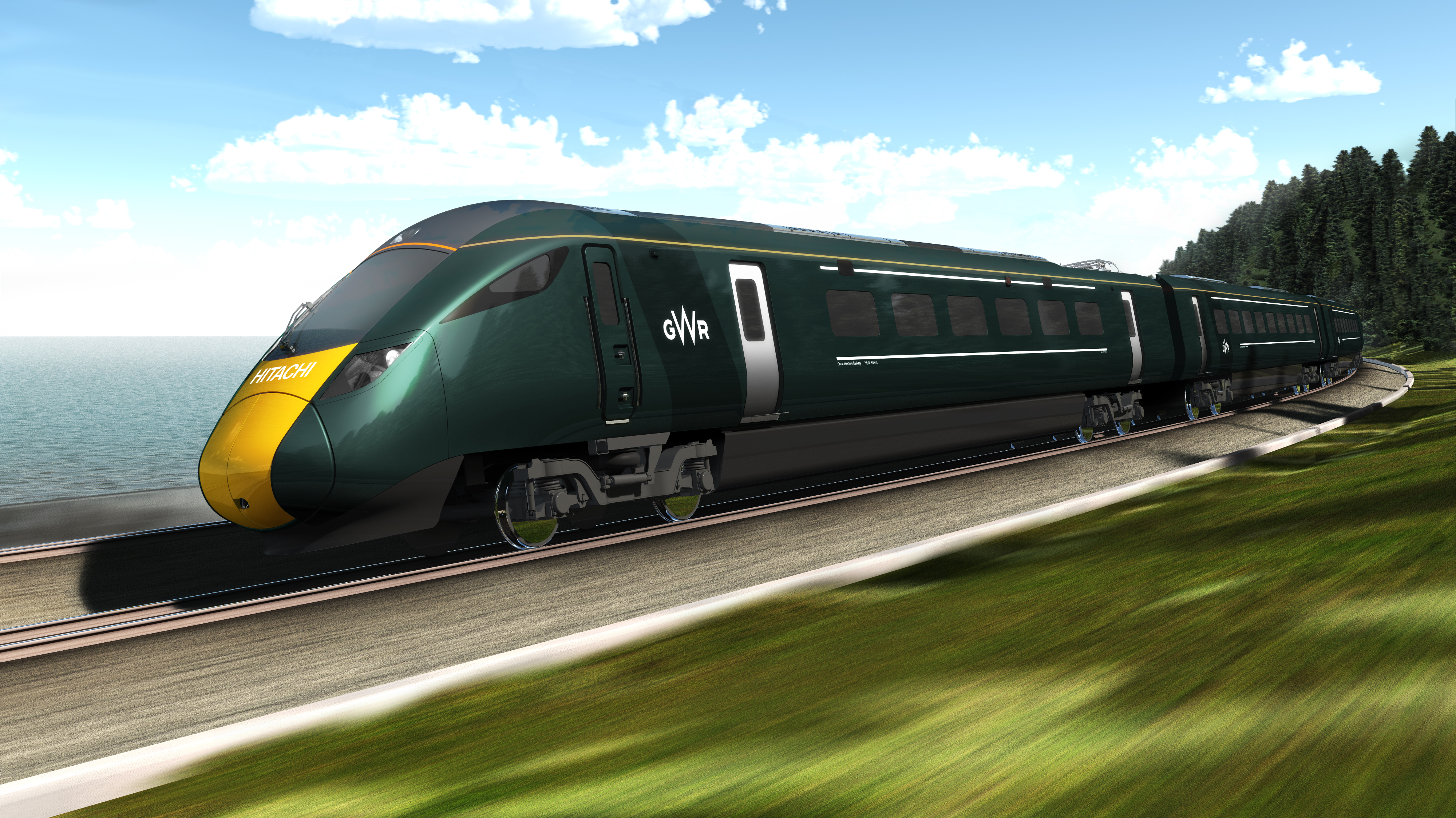 Hitachi Super Express Train in GWR livery